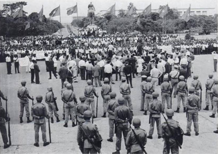 Congolese troops monitor a protest held by MNC-Kalonji against Lumumba's government